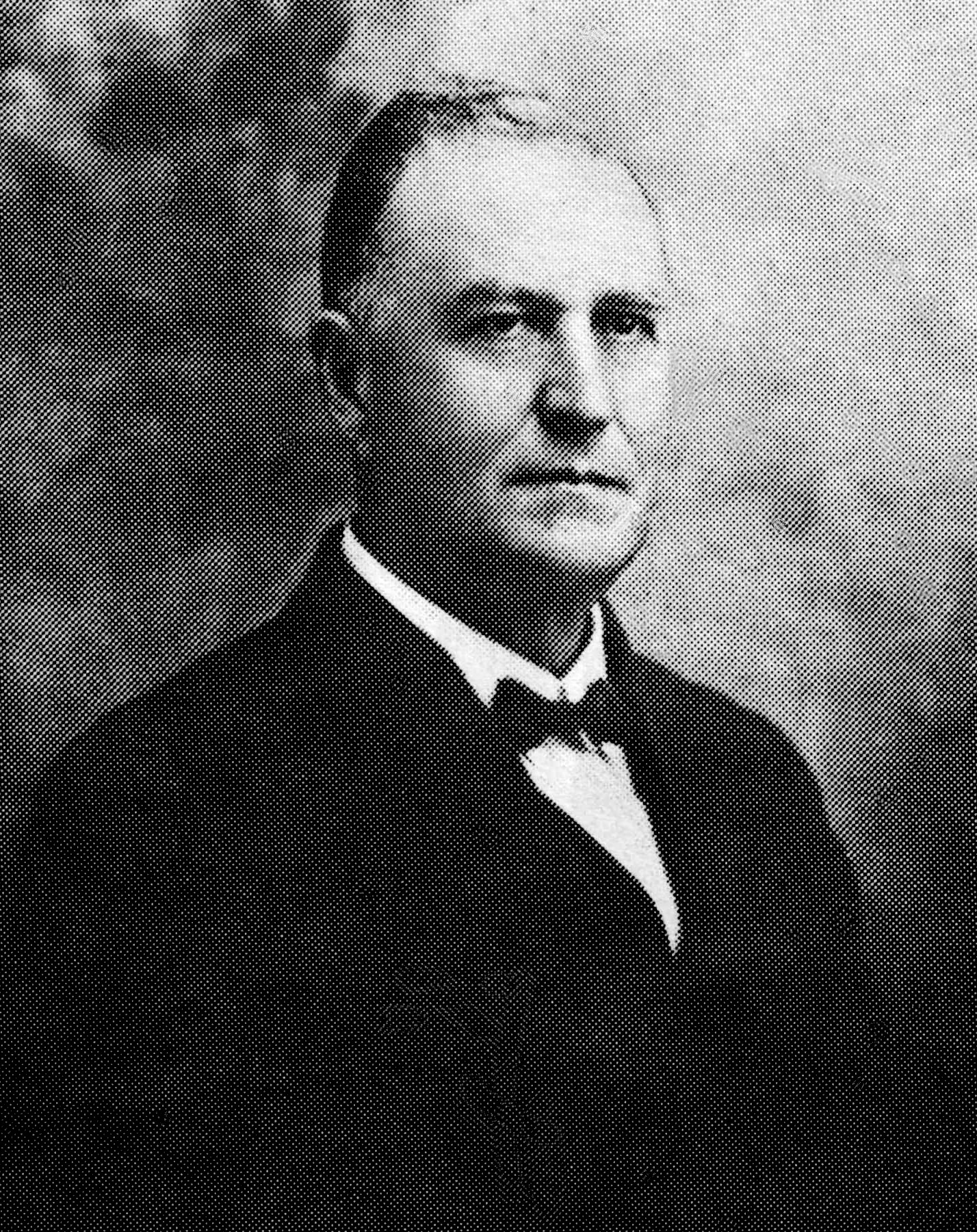 Juan Bautista Quirós Segura (1853-1934), President of Costa Rica (1919).